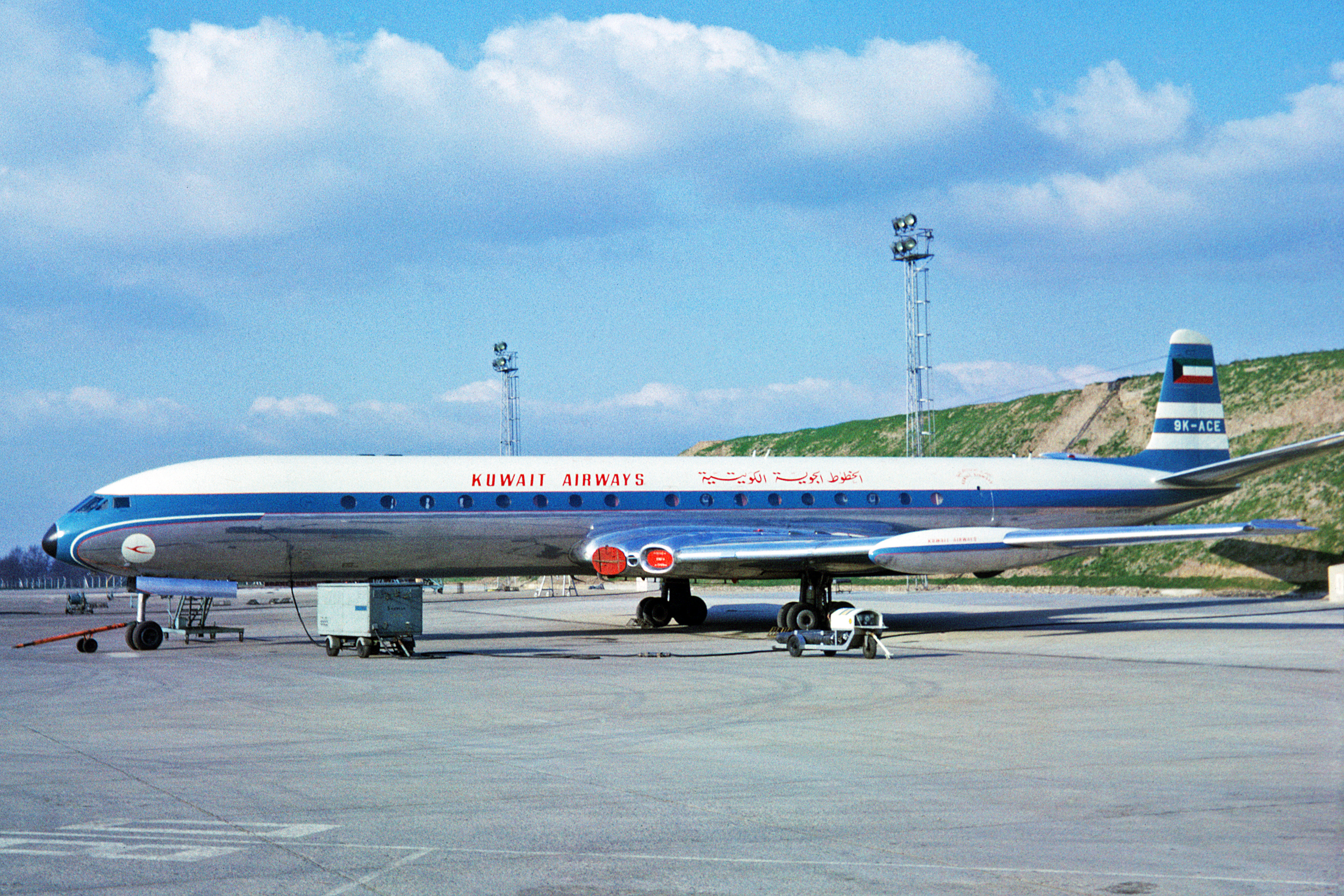 Delivered new to Kuwait Airways as 9K-ACE in Feb-64, the aircraft was wet-leased to MEA Middle East Airlines in Dec-68, returning to Kuwait Airways in Jul-69. It was sold to Dan-Air London in Mar-71 and became G-AYVS the following month. It was retired at Dan-Air's engineering base at Lasham, UK, in Jan-77 and was broken up there in Apr-78.